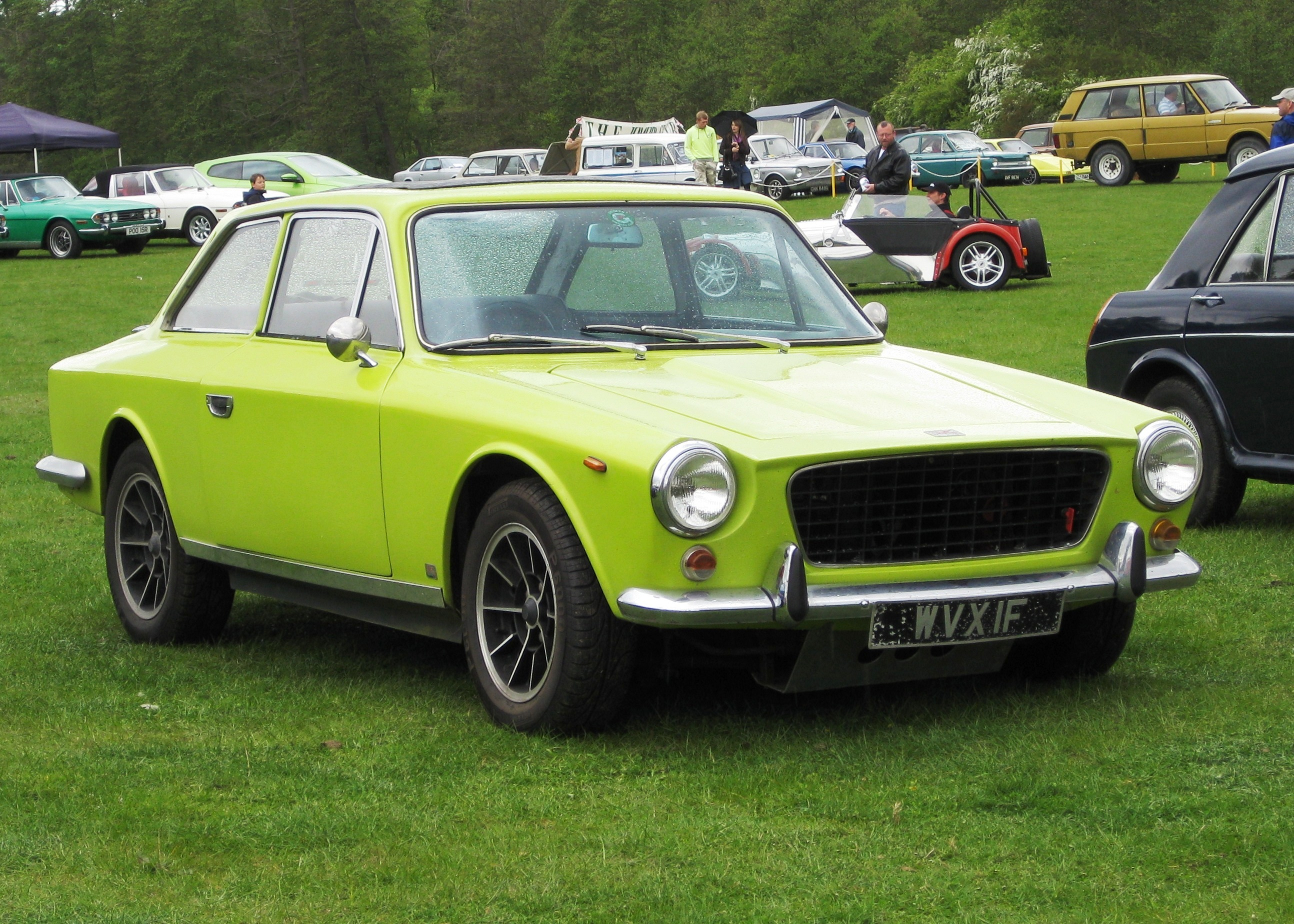 Gilbern Invader near Biggleswade. The car appears to have been reregistered at some stage since the license plate implies an older car than, according to the government data base, this one.